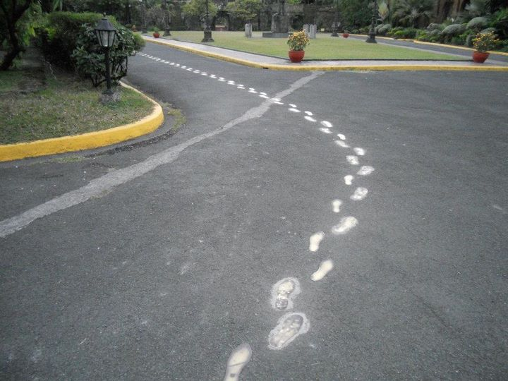 Rizal last steps